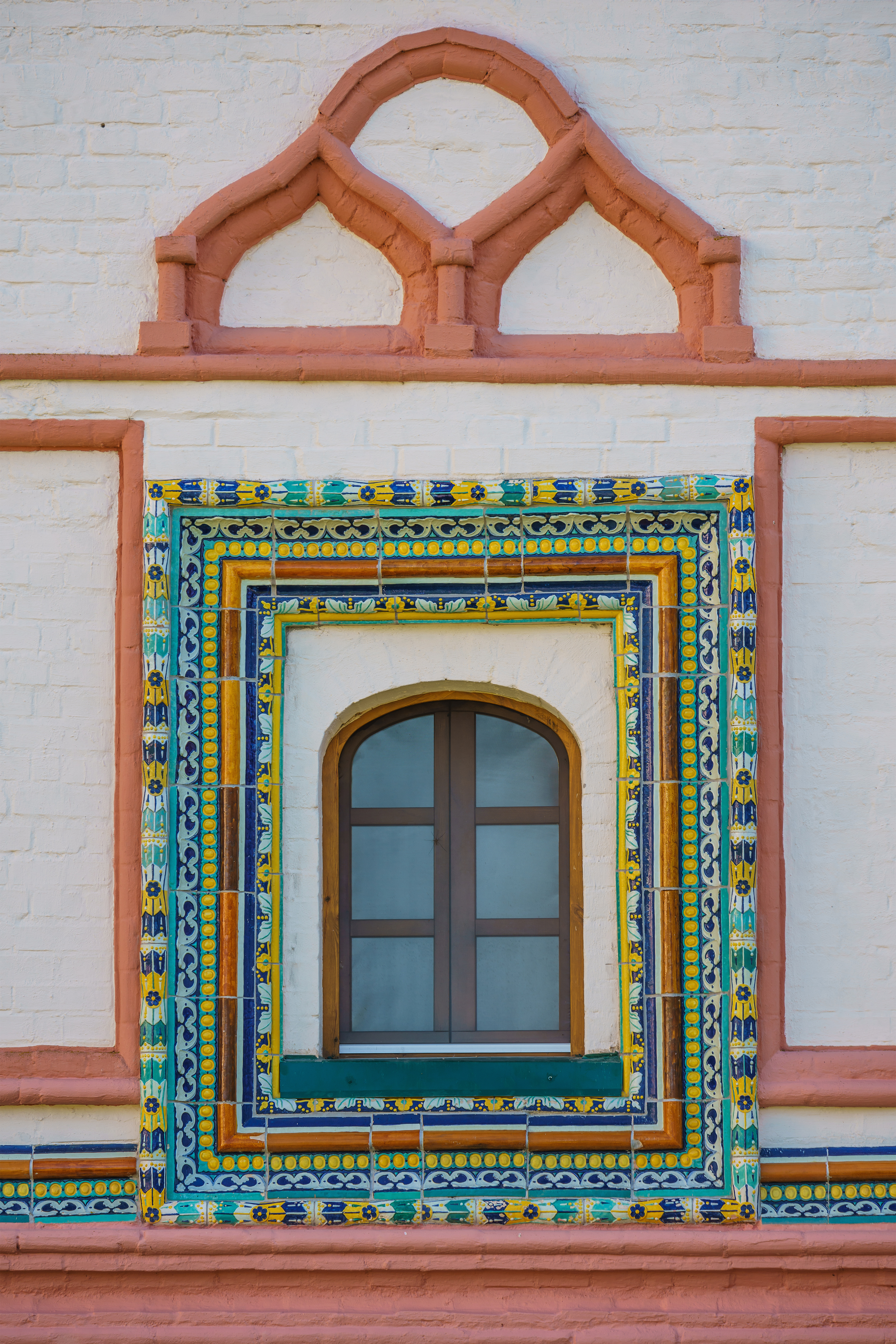 Abbot's house in Iversky Monastery in Valdai, Novgorod Oblast, Russia.